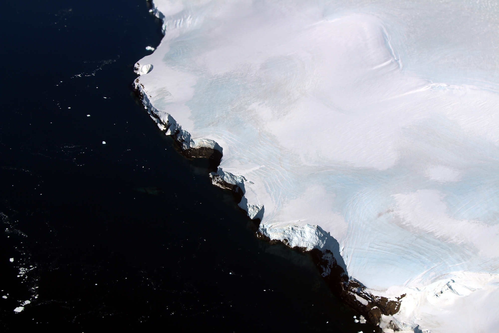 The southeastern edge of Dundee Island. The island's ice cap exhibits several areas of bare "blue ice", probably created by high winds periodically blowing freshly-fallen snow from the surface. Photo taken during Operation IceBridge's "Seelye Loop" mission on Oct. 27, 2016. (NASA/John Sonntag)